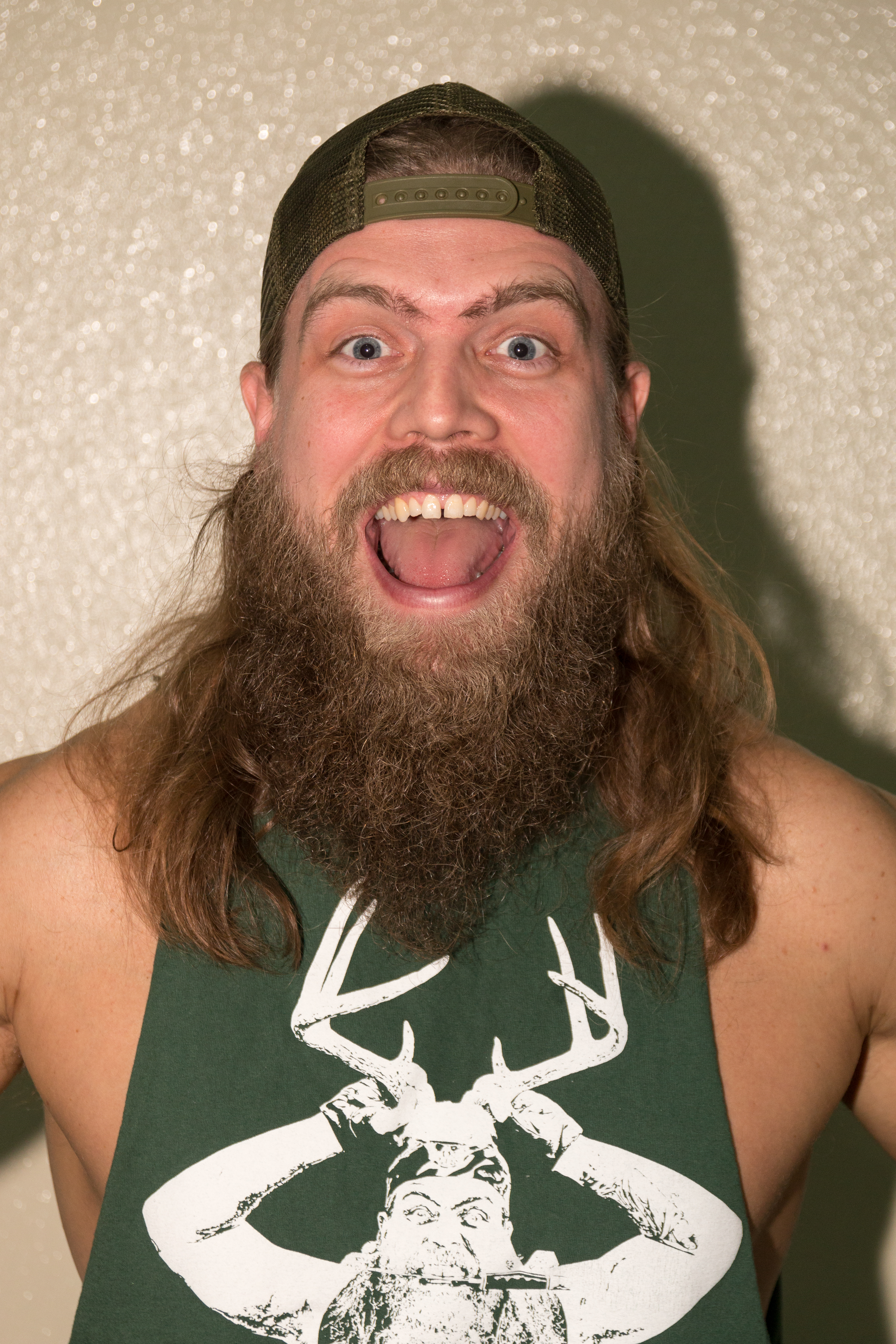 Cody Deaner at a Rock Solid Wrestling show in Wasaga Beach, ON